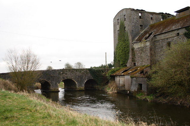 Bridge and old mill Old mill and bridge on the River Brosna at Kilbeggan.